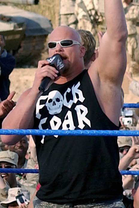 Stone Cold Steve Austin, one of the World Wrestling Entertainment (WWE) superstars performing for the Coalition troops at Camp Victory, Baghdad International Airport (BIAP), Iraq (IRQ) during Operation IRAQI FREEDOM.